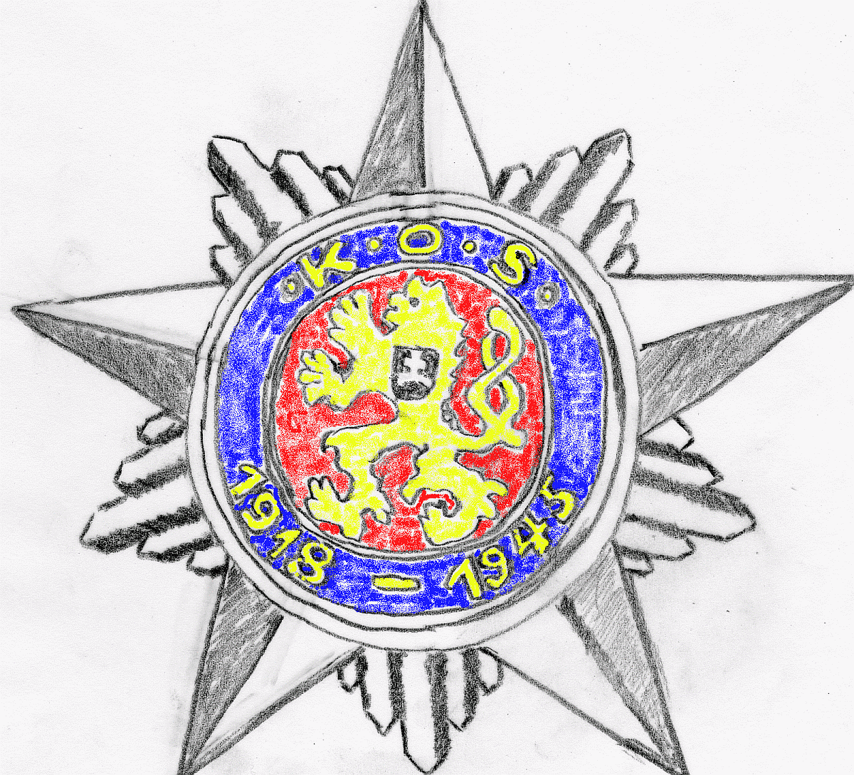 Commemorative medal of resistance group KOS, which operated in the domestic anti-German resistance in the Protectorate. Originally the group was called "P", but later changed its name to KOS (Discipline - Courage - Strength). The group KOS was (and already in 1942) completely infiltrated by confidents which belonged to anti-parachutist department of Gestapo. The destruction of resistance group KOS was finished by intervention of anti-communist department of Gestapo in spring 1943. And so, paradoxically, anti-communist department of Gestapo killed "heron network" which was used by anti-parachutist department of Gestapo.